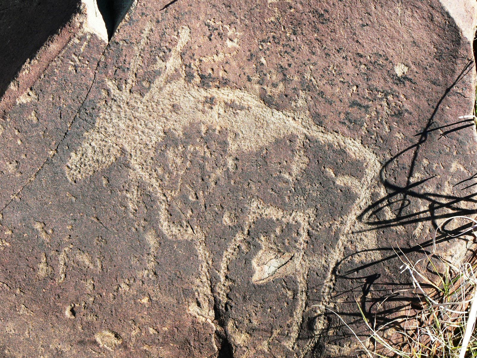 Engraving of a gemsbok from the Wildebeest Kuil Rock Arts Site outside Kimberley South Africa. The site is open to the public and is well interpreted.